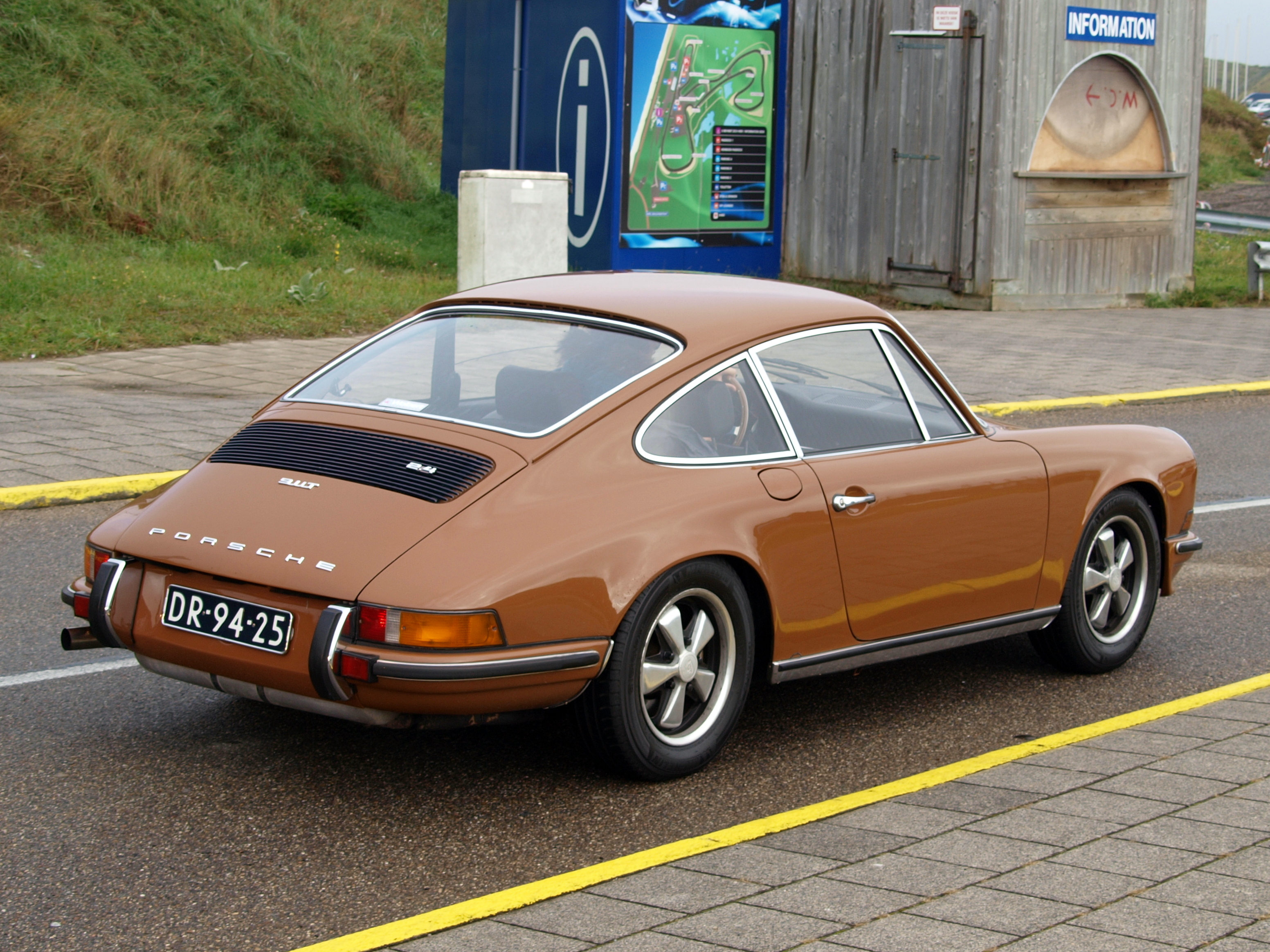 Photographed at the Nationaal Oldtimer Festival Zandvoort 2010, The Netherlands.